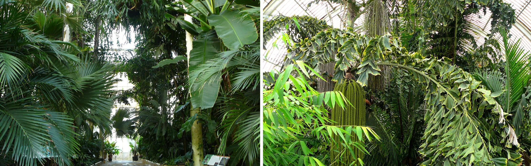 Inside Kew Gardens Palm House